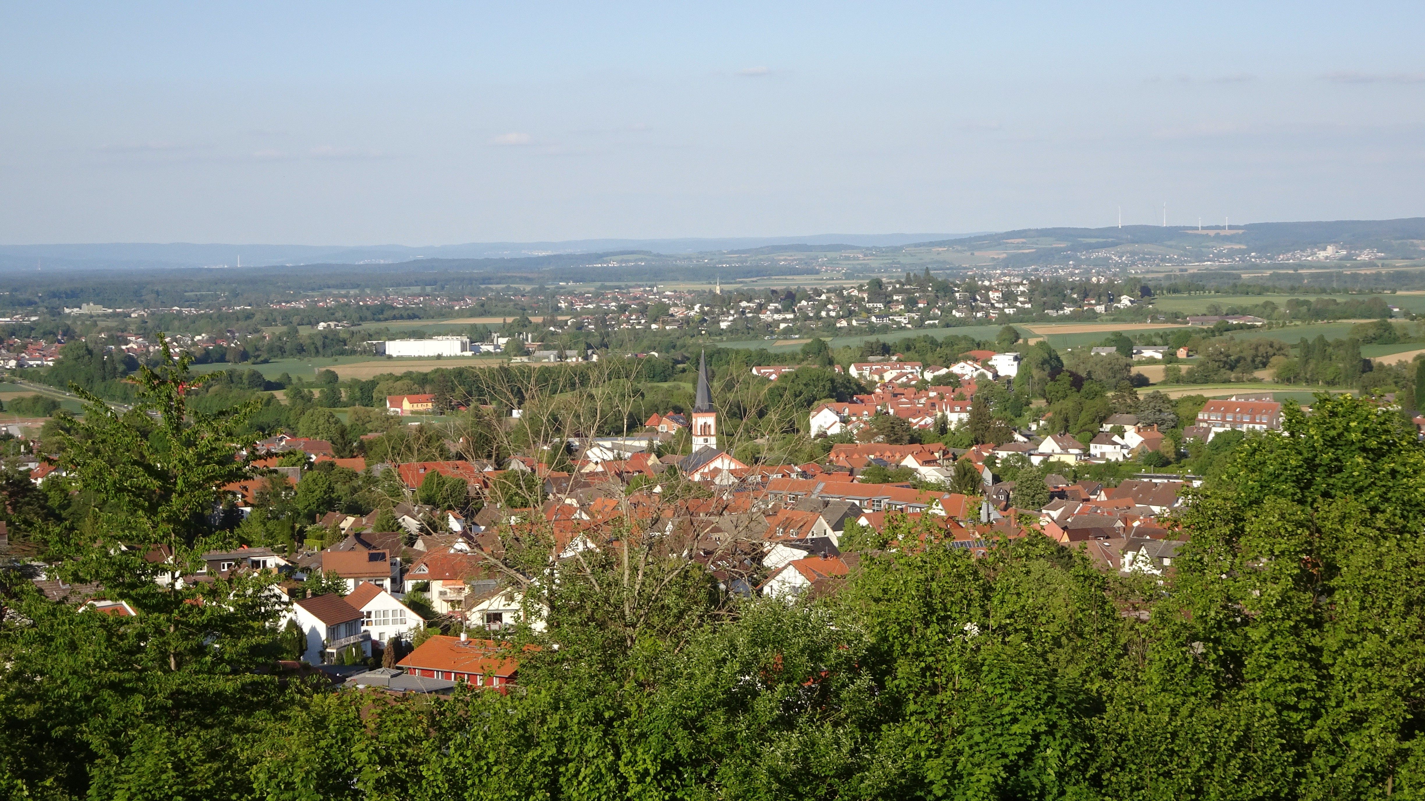 View from natural monument Rehberg upon Roßdorf (Landkreis Darmstadt-Dieburg, Hesse, Germany).